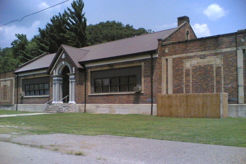 The former Eden Park Elementary School (Clay Local School District), Eden Park, Scioto County, Ohio, United States